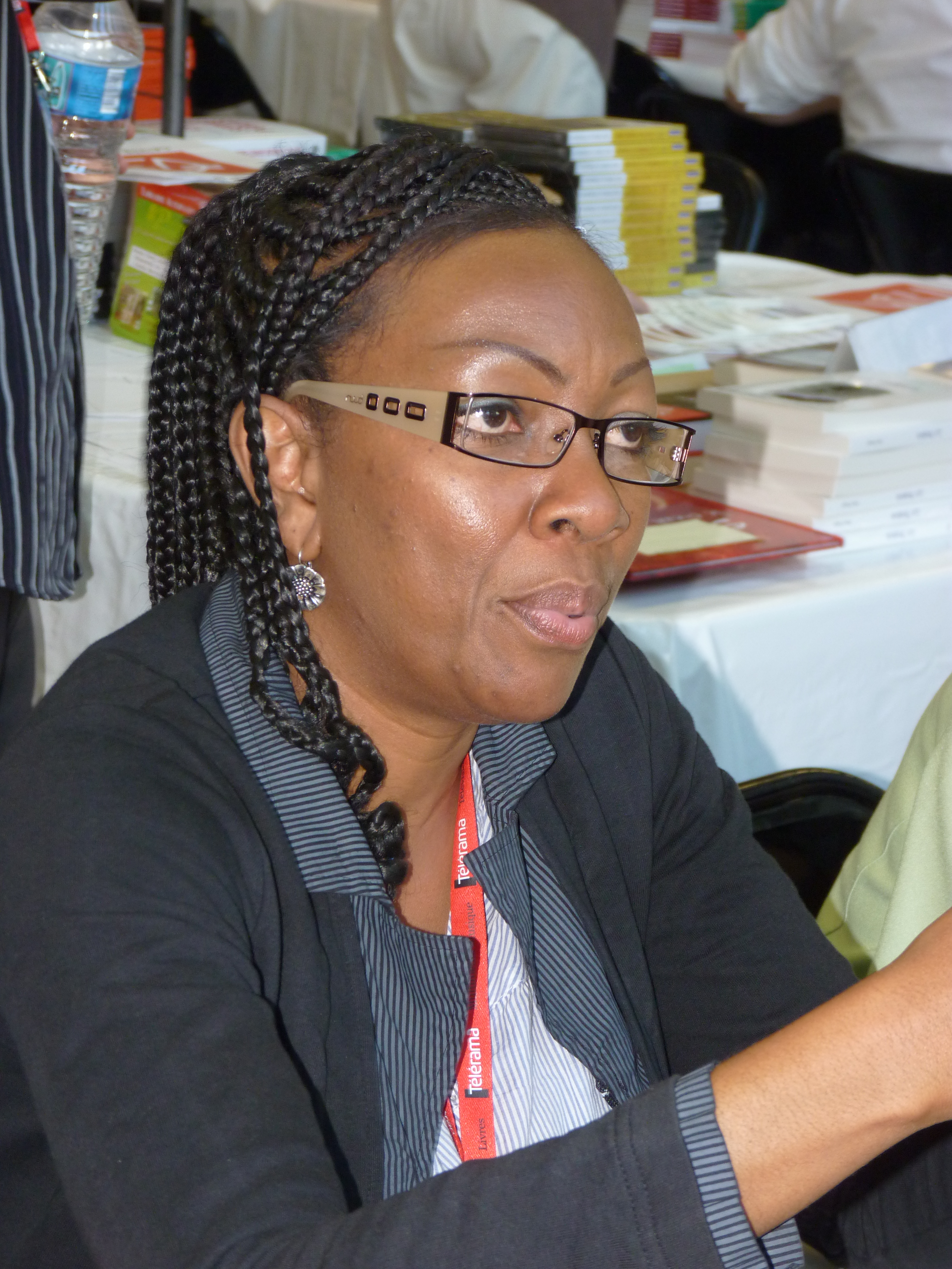 Muriel Diallo at the 2011 Mouans-Sartoux Literature Festival.